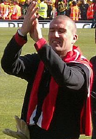 Mark Crossley. Image cropped from original at flickr.